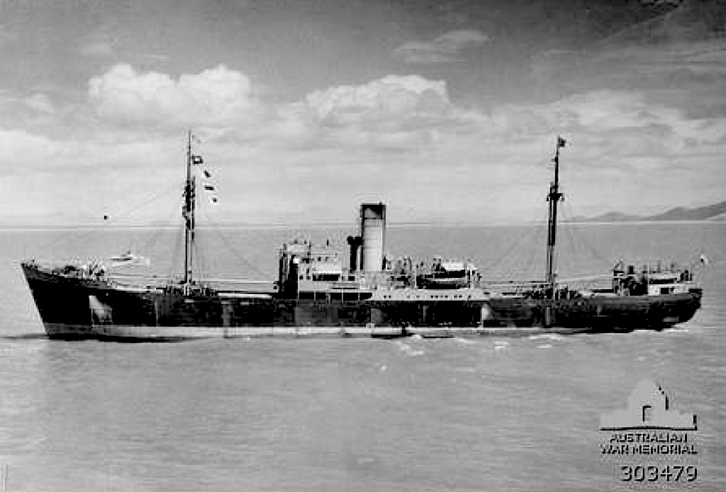 Formerly the German Soneck, and impounded in the Netherlands East Indies (NEI) when war began, in May 1940, the 2,191 ton steamer SS Karsik (as it was renamed) was used as a train ferry at Batavia until the Japanese invasion. This meant it was well suited for the later job of carrying much needed tanks to the Allied forces in New Guinea. In June 1942 the Karsik transported supplies and equipment to Milne Bay. In December 1942 she brought tanks from Milne Bay to Oro Bay for use in the assault on Buna from December 1942 to June 1943. She took part in Operations Lilliput and Accountant, transporting Australian and American troops and material to Oro Bay. "Australian War Memorial notice: Copyright expired - public domain—This term describes material held in the National Collection that is clearly out of the period of copyright protection. Material that has passed out of the period of copyright protection is known as being in the “public domain” and is free of known copyright restrictions."